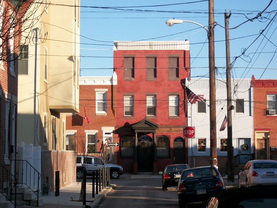 Congregation Shivtei Yeshuron Ezras Israel, 2015 S 4th Street, Philadelphia, PA 19147 in South Philadelphia. Photograph from Emily Street facing east. Building constructed between 1885 and 1895. Photo 2012 by Morris Levin.